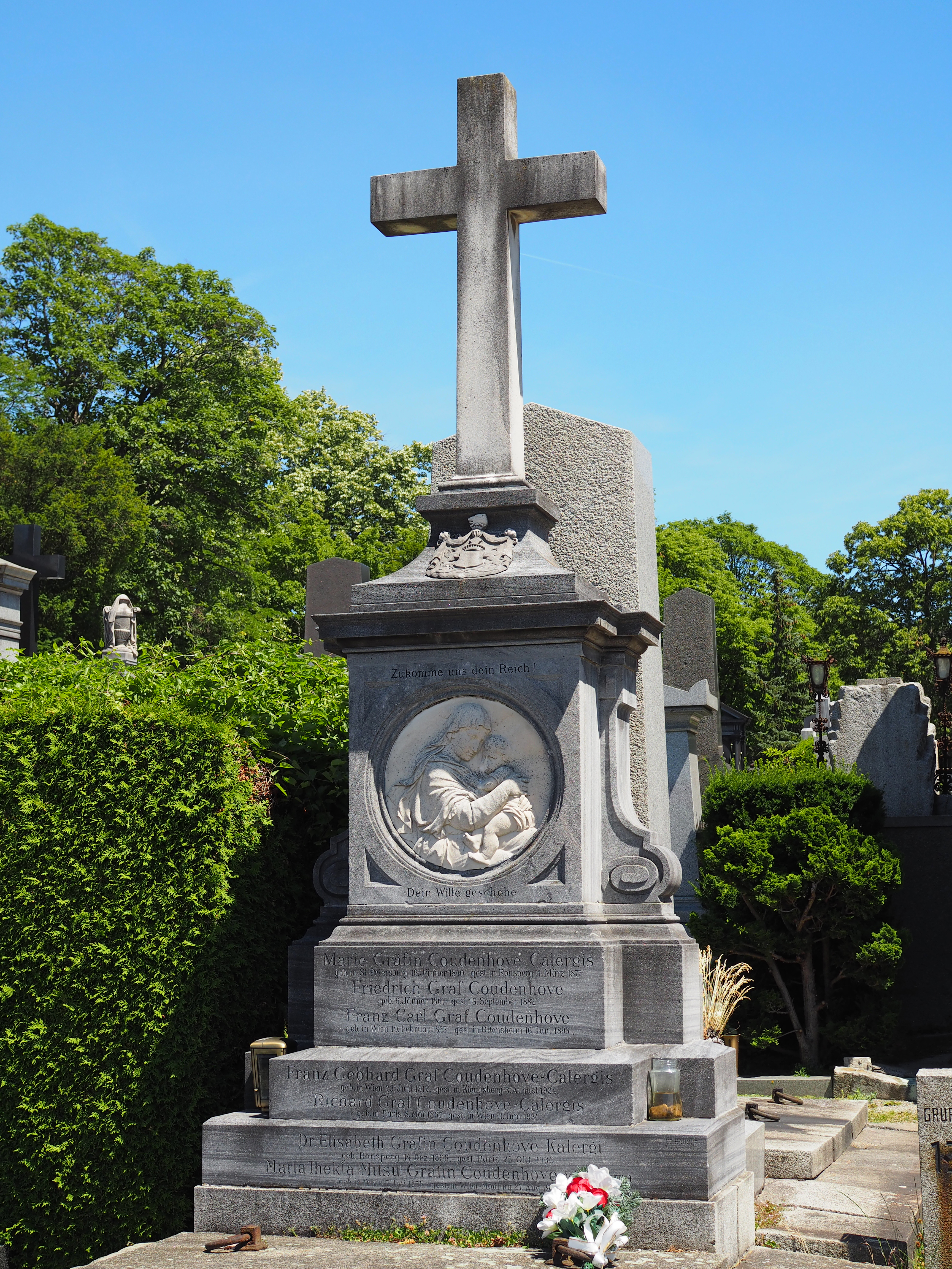 Coudenhove and Coudenhove-Kalergi family grave, Hietzing cemetery, 1130 Vienna: Marie Coudenhove-Calergis (1840, Saint Petersburg–1877, Poběžovice), Friedrich Coudenhove (1861–1882), Franz Carl Coudenhove (1825, Vienna–1893, Ottensheim), Franz Gebhard Coudenhove-Calergis (1912, Vienna–1924, Königsberg), Richard Coudenhove-Calergis (1867, Paris–1934, Vienna), Elisabeth Coudenhove-Kalergi (1898, Poběžovice–1936, Paris), Maria Thekla Mitsu Coudenhove (1874, Tokyo–1941, Mödling)